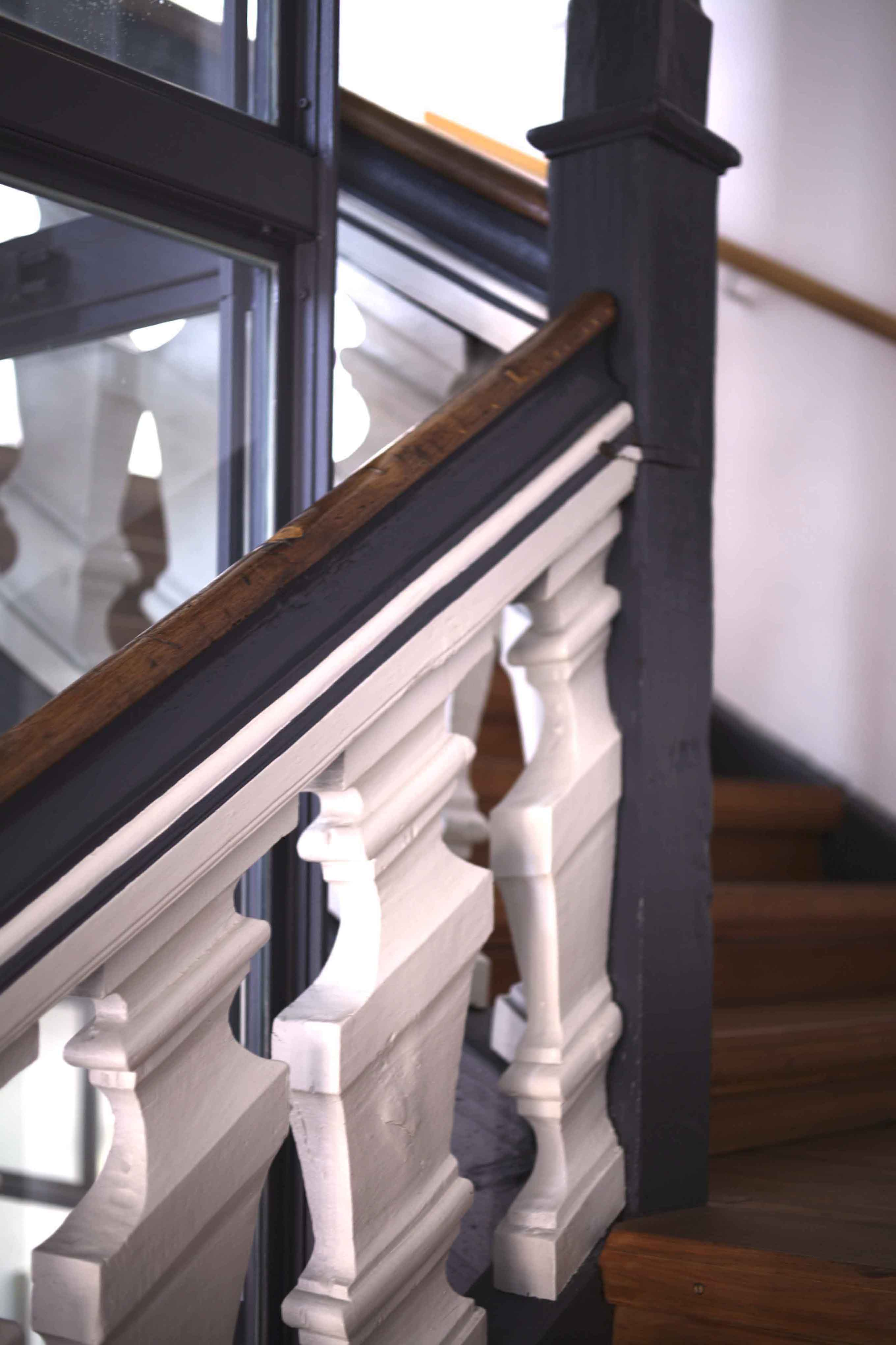 Bayreuth, Maximilianstraße 33, Treppenhaus BrautgasseThis is a photograph of an architectural monument.